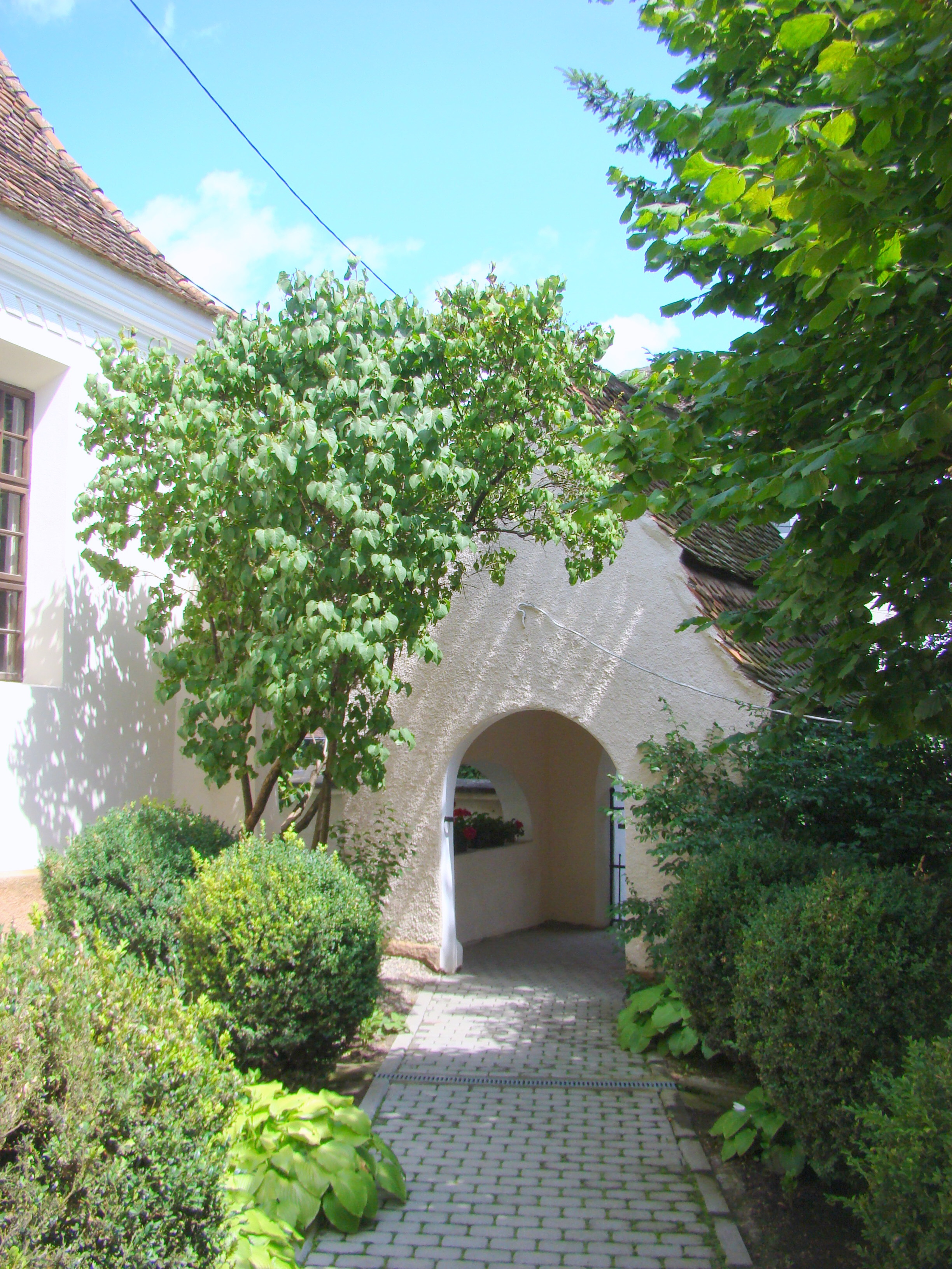 Lutheran church in Satu Nou, Brașov County, Romania